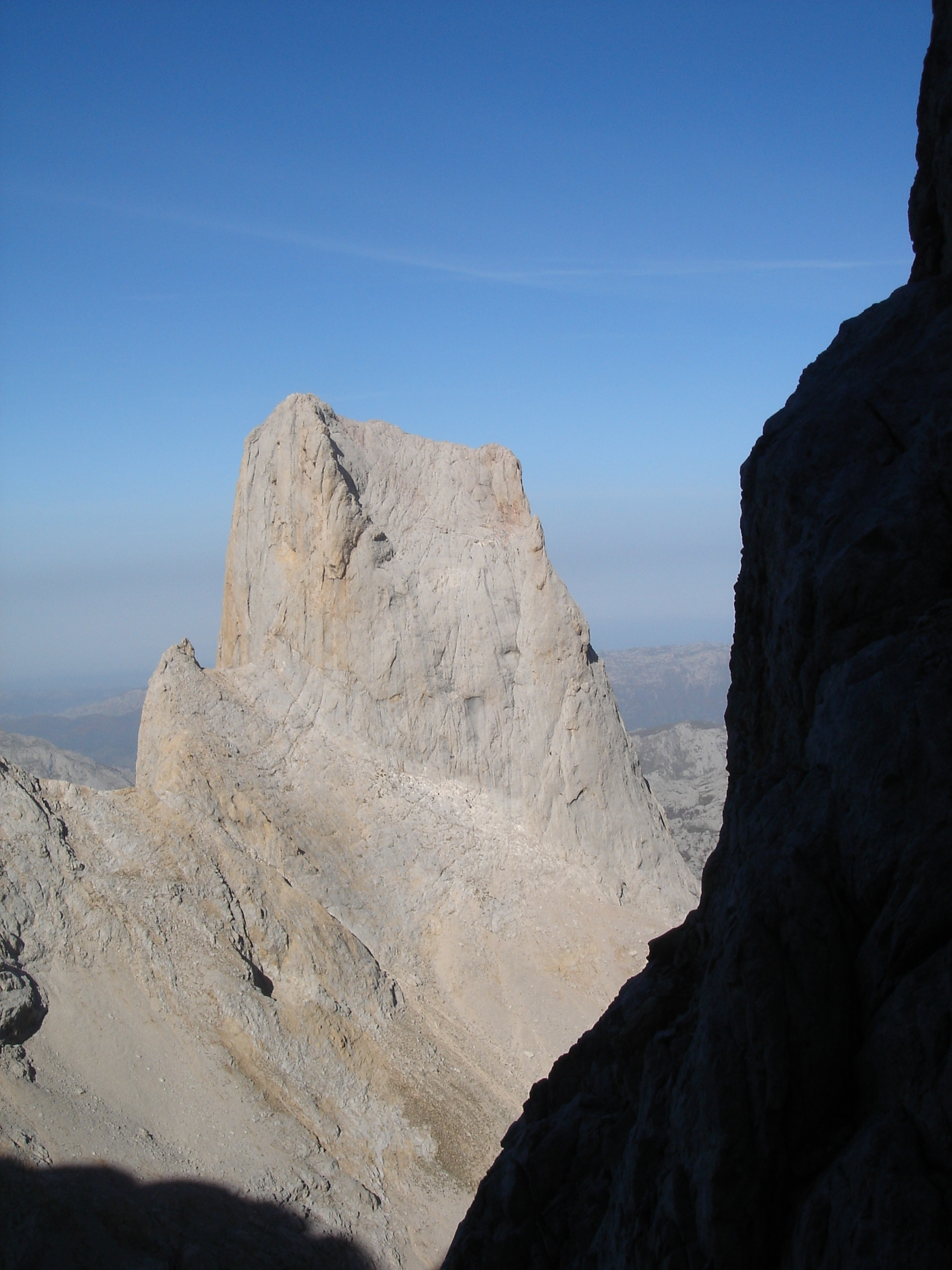 The south face of Picu Urriellu, or Naranjo de Bulnes.